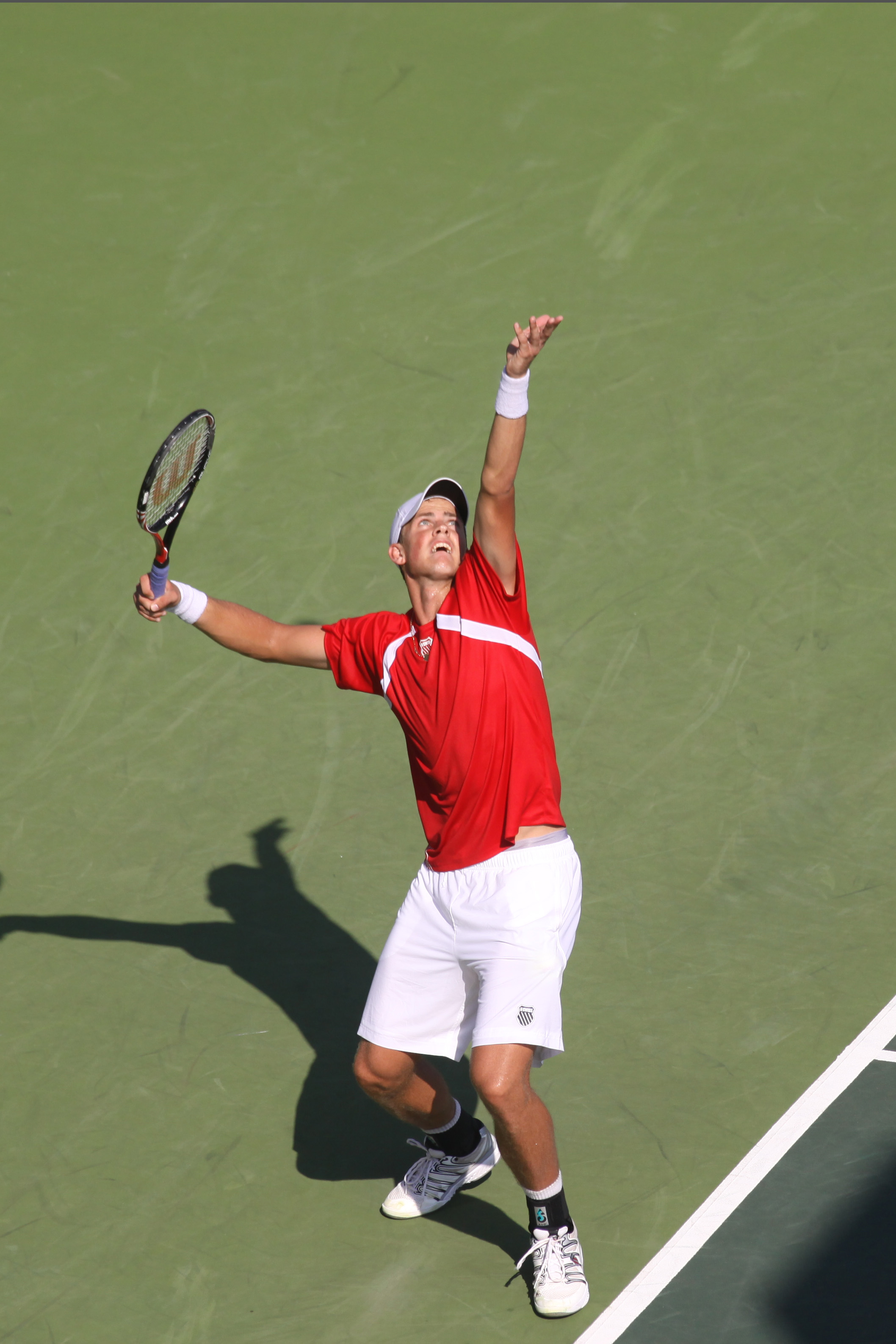 Vasek Pospisil serving. Davis cup match Israel-Canada vs. Dudi Sela. 2011-09-16